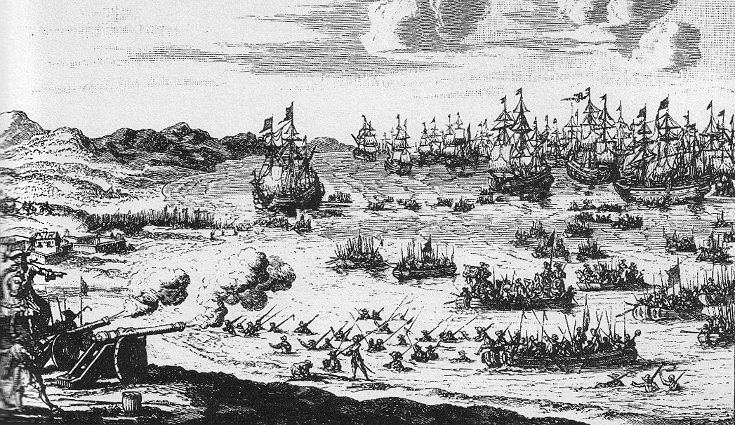 Invasion of the isle of Ruegen, 1678